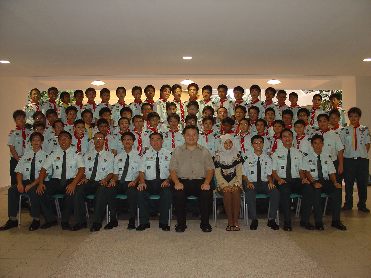 A group photograph of members of the Arrow Scout Group of Victoria School, Singapore, who took part in a Passing Over Ceremony.